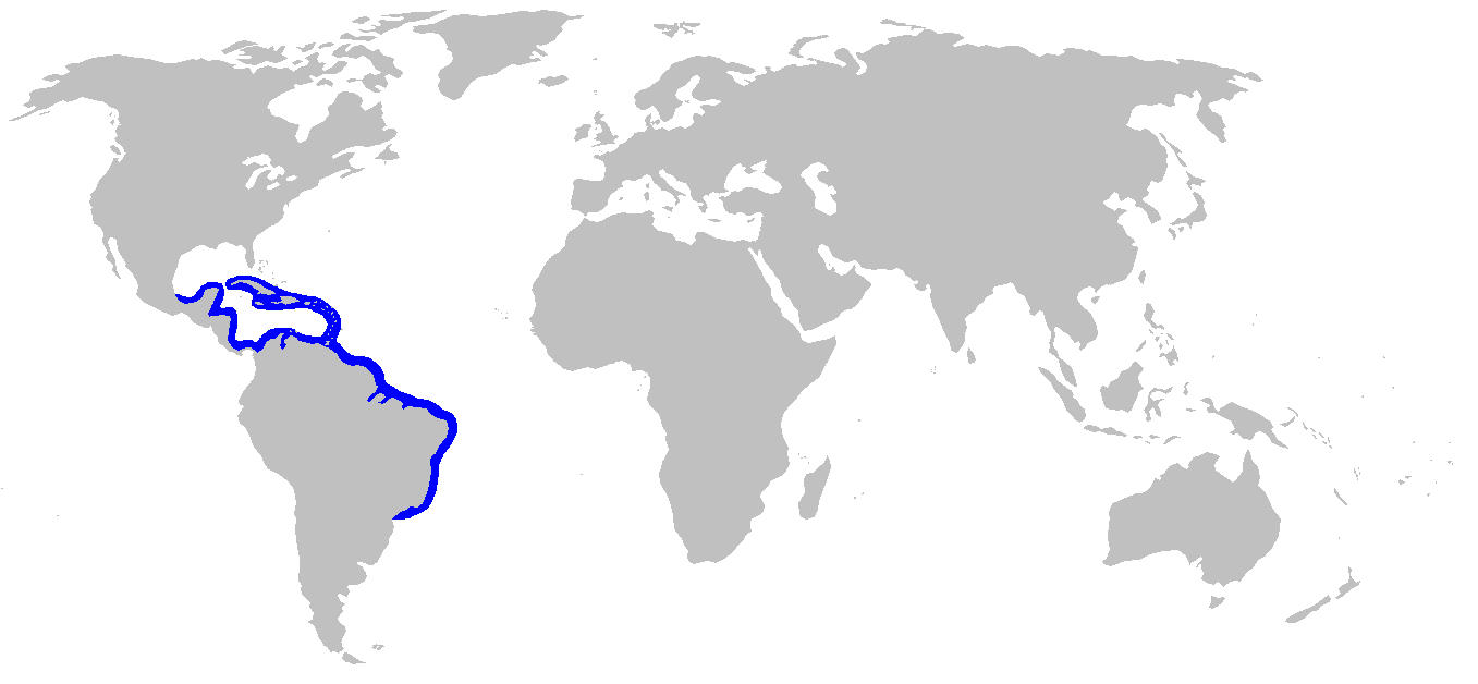 Range of the longnose stingray (Dasyatis guttata), based on Carpenter (2002).